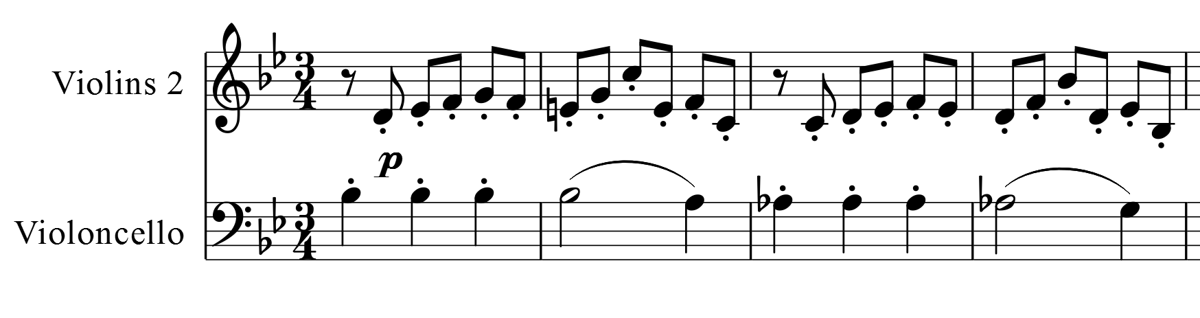 Joseph Haydn, Symphony No. 16, first movement, bar 1-4